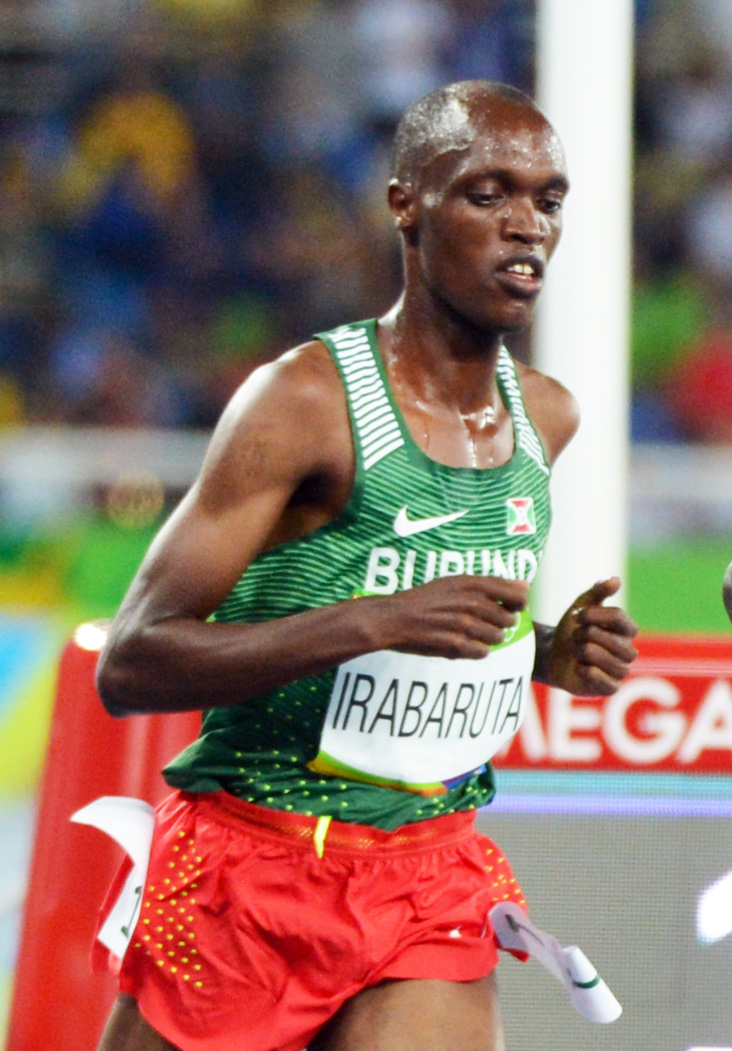 Spcs. Leonard Korir and Shadrack Kipchichir finish 14th and 19th respectively in the men's 3,000-meter run Aug. 13 at the 2016 Rio Olympic Games in Rio de Janeiro. Both Soldiers in the U.S. Army World Class Athlete Program turned in their season-best performaces, with Korir finishing in 27 minutes, 58.65 seconds and Kipchirchir clocked at 27:58.32. Mohamed Farah of Great Britain successfully defended his Olympic crown by winning the race in 27:05.17. Paul Kipnetech Tanui of Kenya took the silver in 27:05.64, and Tamirat Tola of Ethiopia claimed the bronze in 27:06.27.